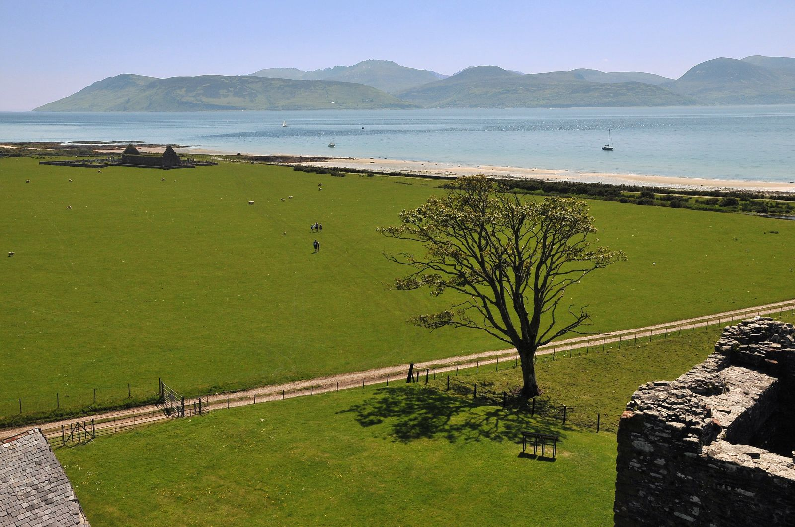 View from Skipness castle to the Cock of Arran